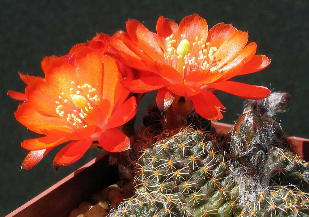 Rebutia pygmaea (Rebutia iscayachensis) - cultivated plant from own collection.